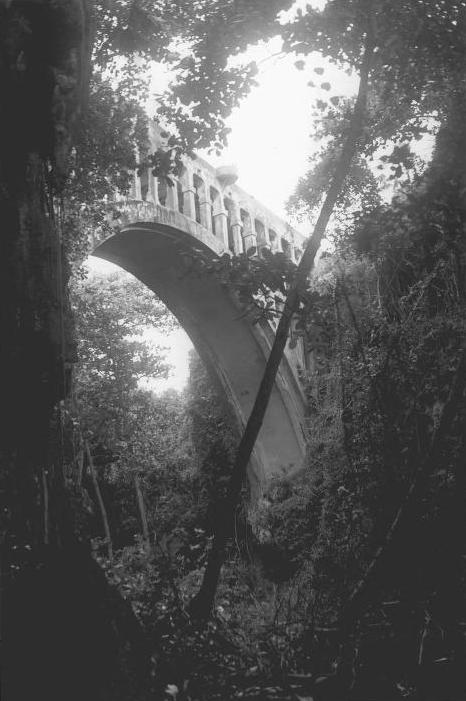 Puente Blanco, an old railway bridge in Quebradillas municipality, Puerto Rico. It's listed on the U.S. National Register of Historic Places.